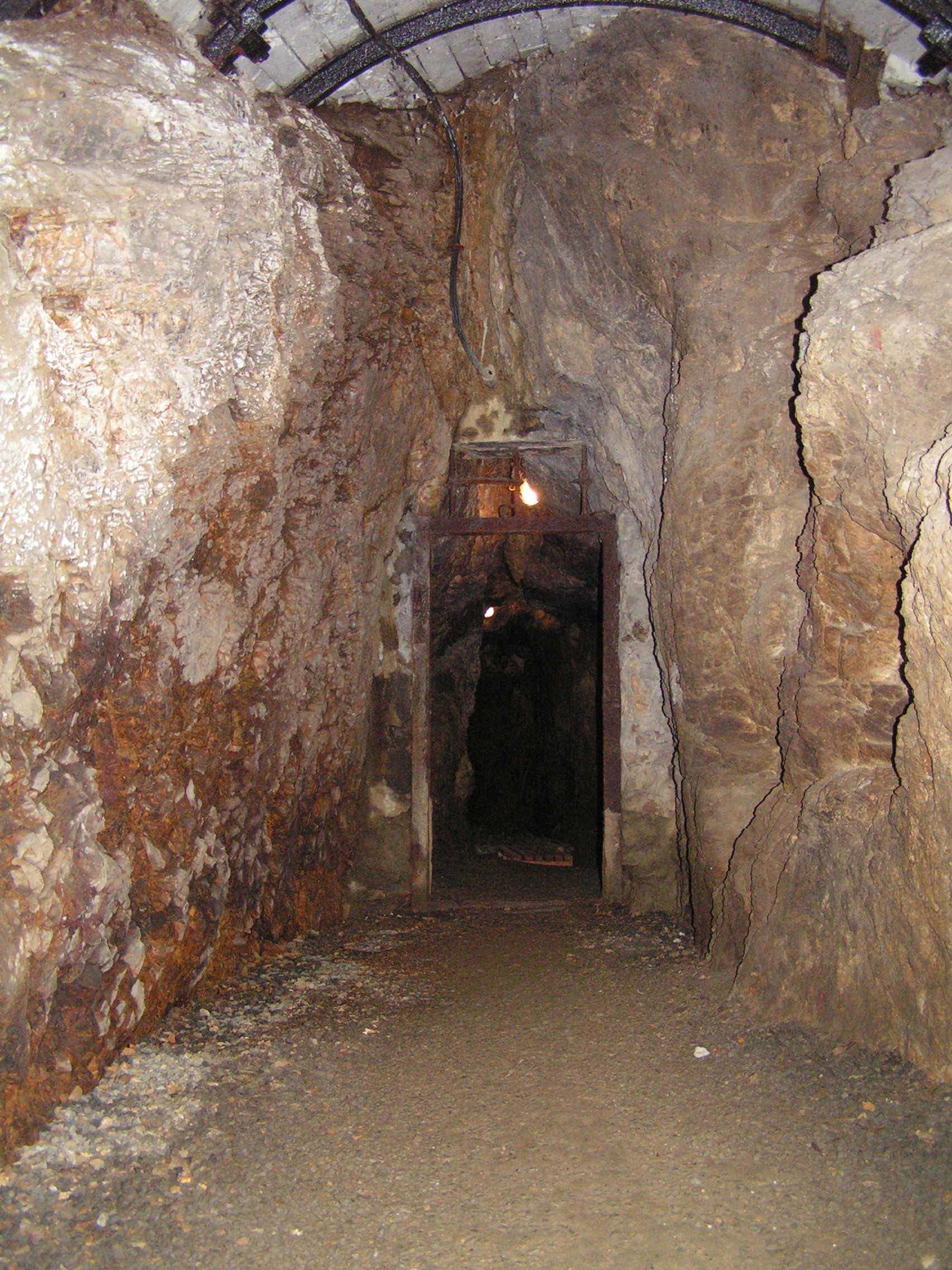 Gold mine in Zlotoryja, Poland